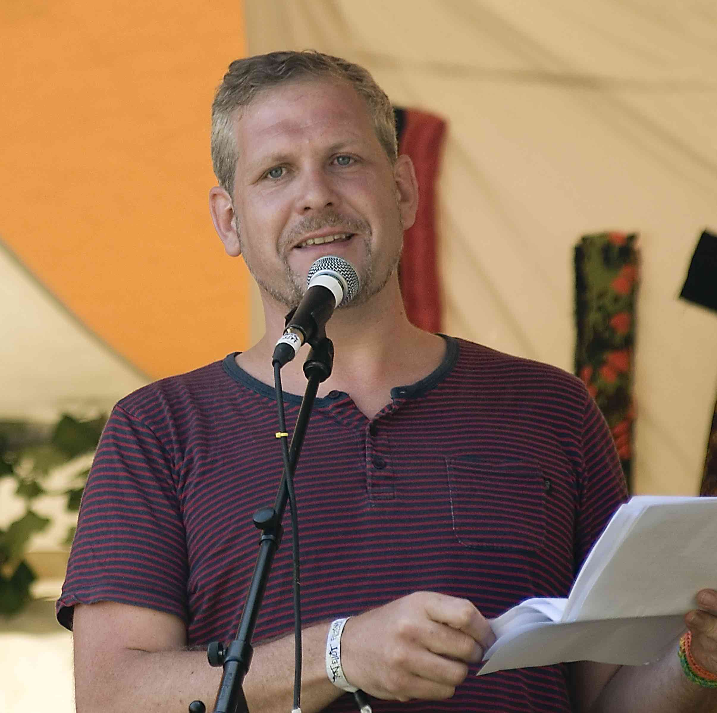 Matthew De Abaitua reading from Self & I at the Port Eliot Festival